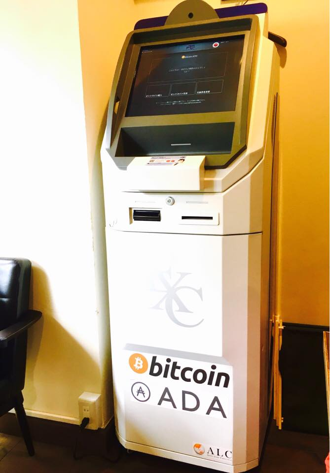 ADA (Cardano) ATM in Japan (2017).